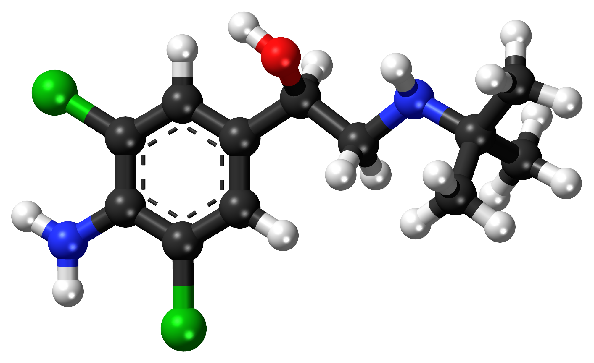 Ball-and-stick model of clenbuterol — a long-acting β2 adrenoreceptor agonist (LABA) used in the management of asthma, COPD and as tocolytic to prevent premature birth. Clenbuterol is a racemic mixture, (R)-(−)-enantiomer is portrayed. Created using Accelrys DS Visualizer 4.1 and Adobe Photoshop CC 2015.